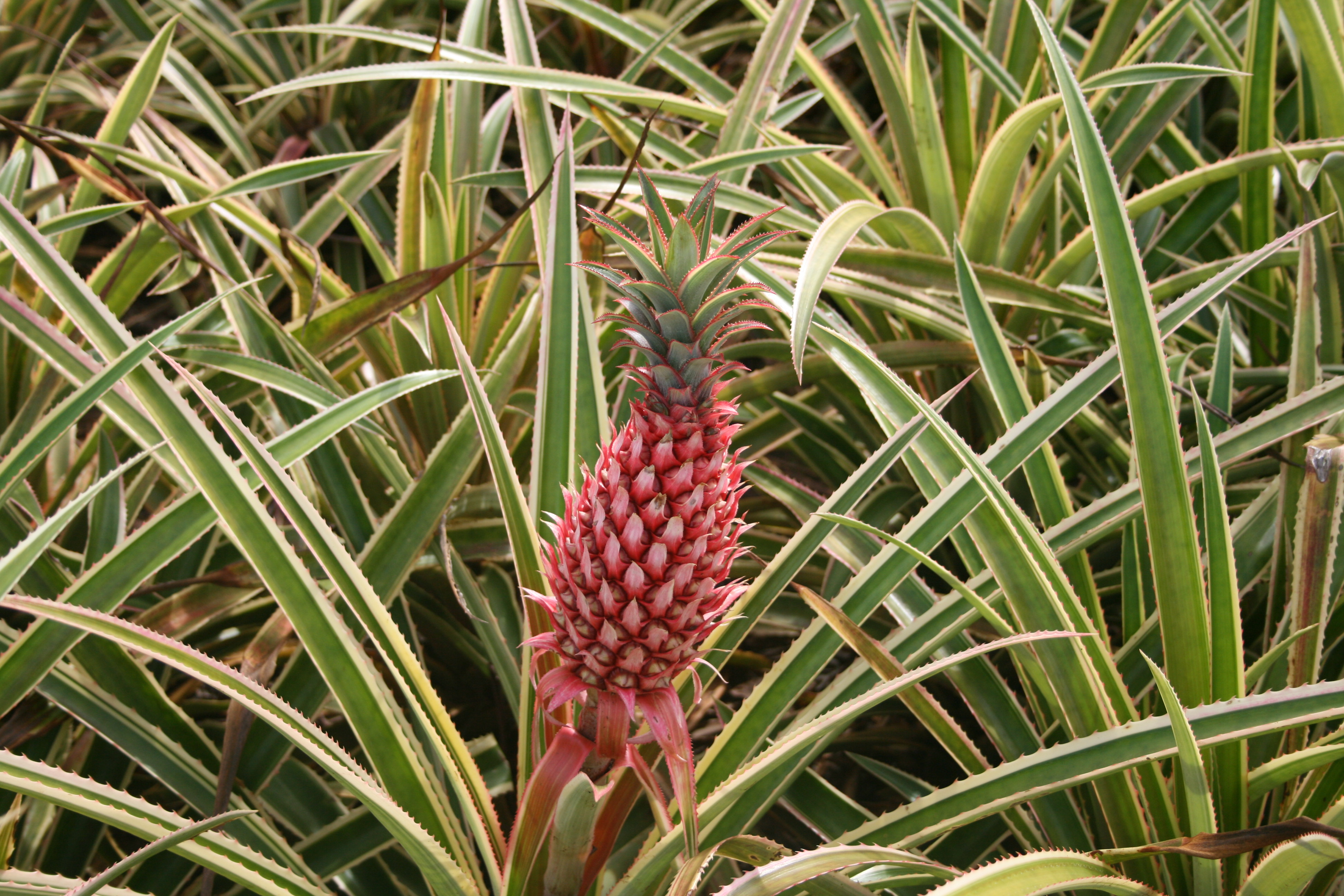 Ananas bracteatus, Dole Pineapple Plantation, Oahu, Hawaii, USA